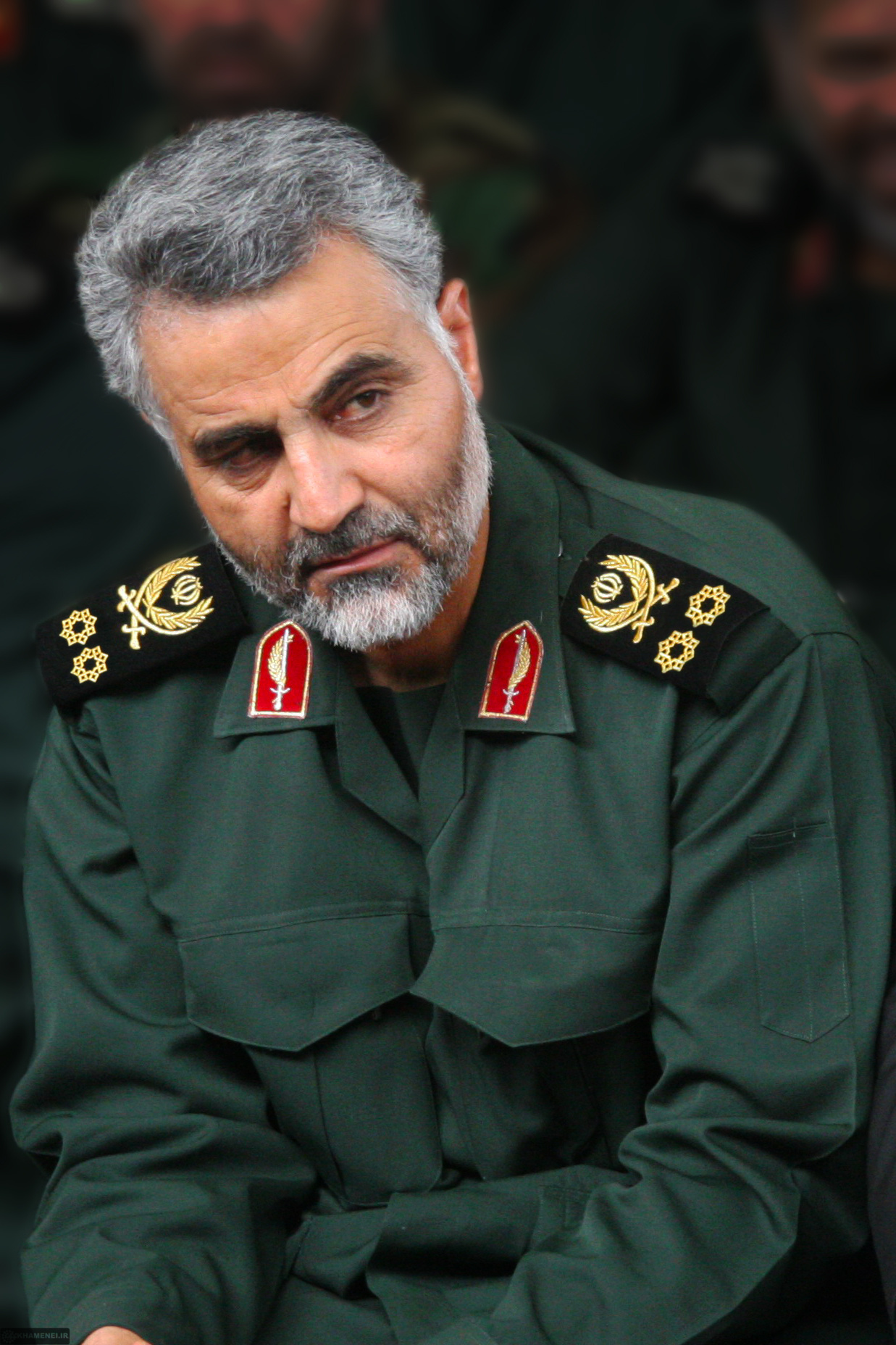 Qasem Soleimani- commander of Quds Force of Army of the Guardians of the Islamic Revolution (IRGC)